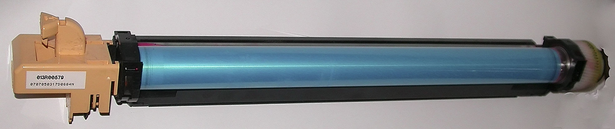 OPC of a XEROX DocuColor 1632 color laser copy system